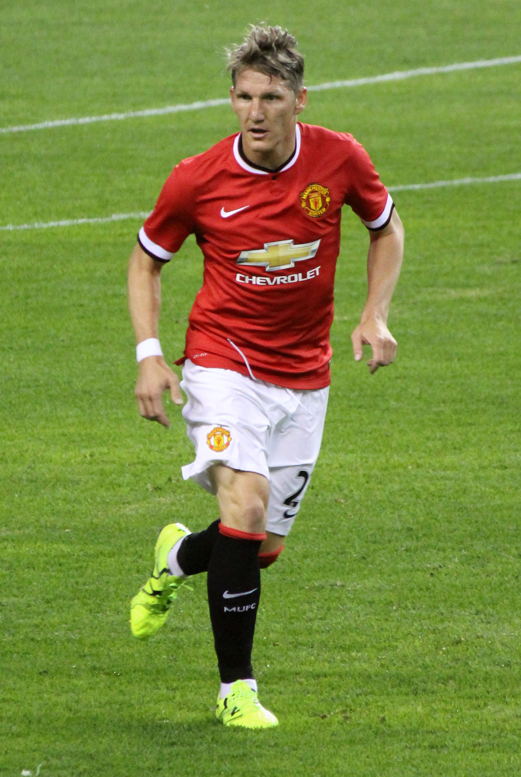 Bastian Schweinsteiger playing for Manchester United in pre-season friendly against Club America